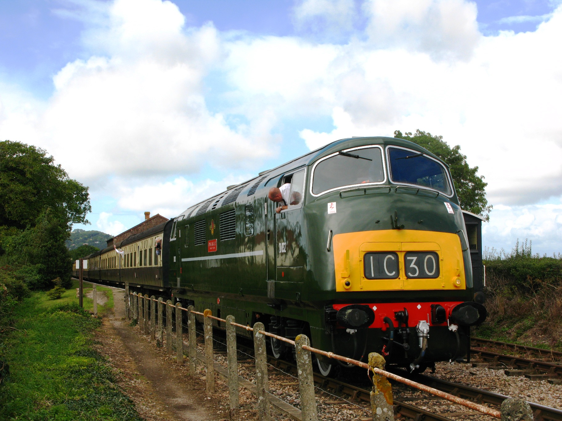 Class 42 'Warship' diesel-hydraulic D832 Onslaught pulls away from Dunster on the West Somerset Railway with a train to Bishops Lydeard.